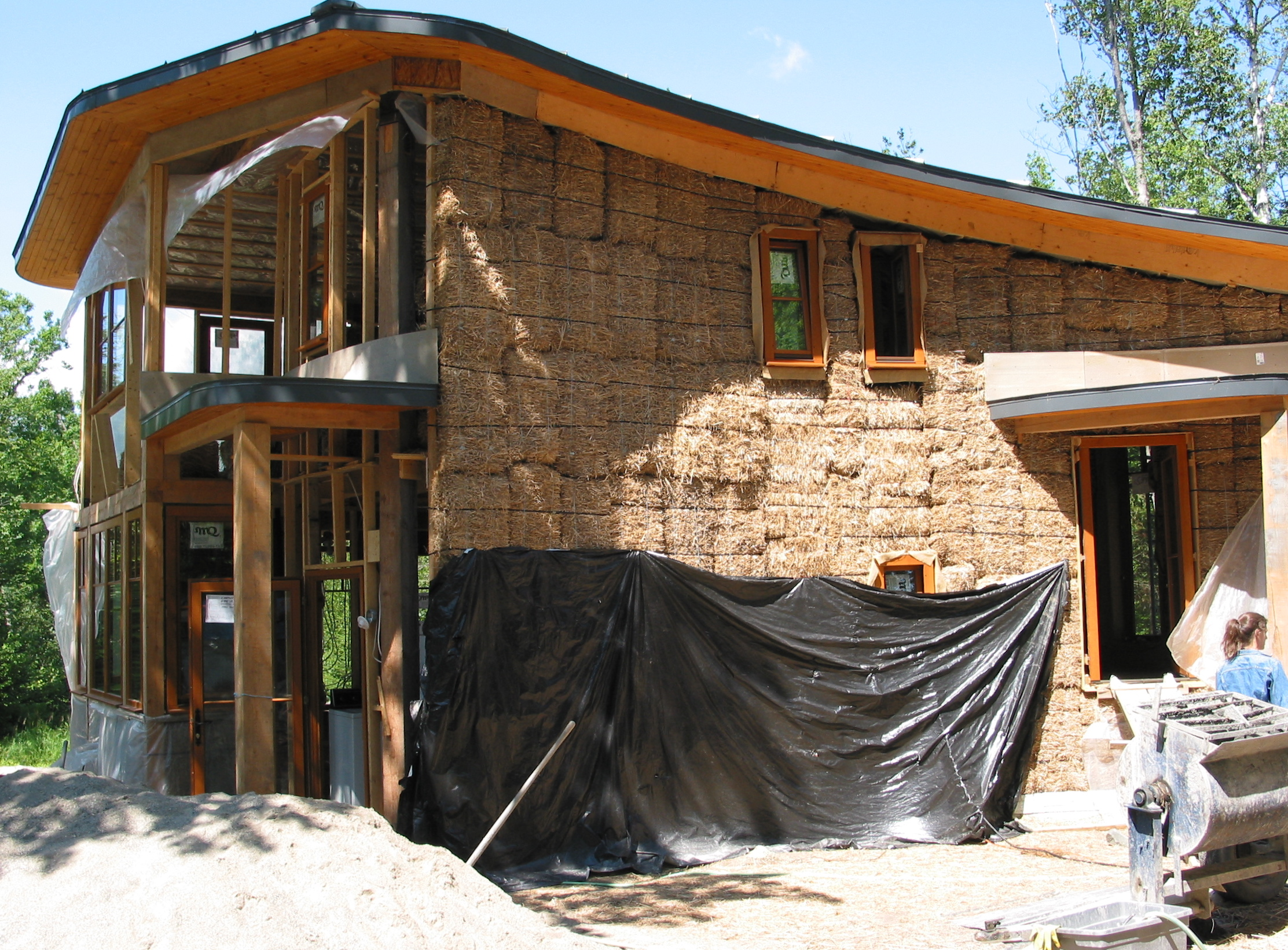 Building a straw-bale house, Designed by Carina Rose